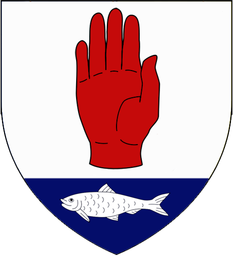 Coat of arms of the O'Neill.